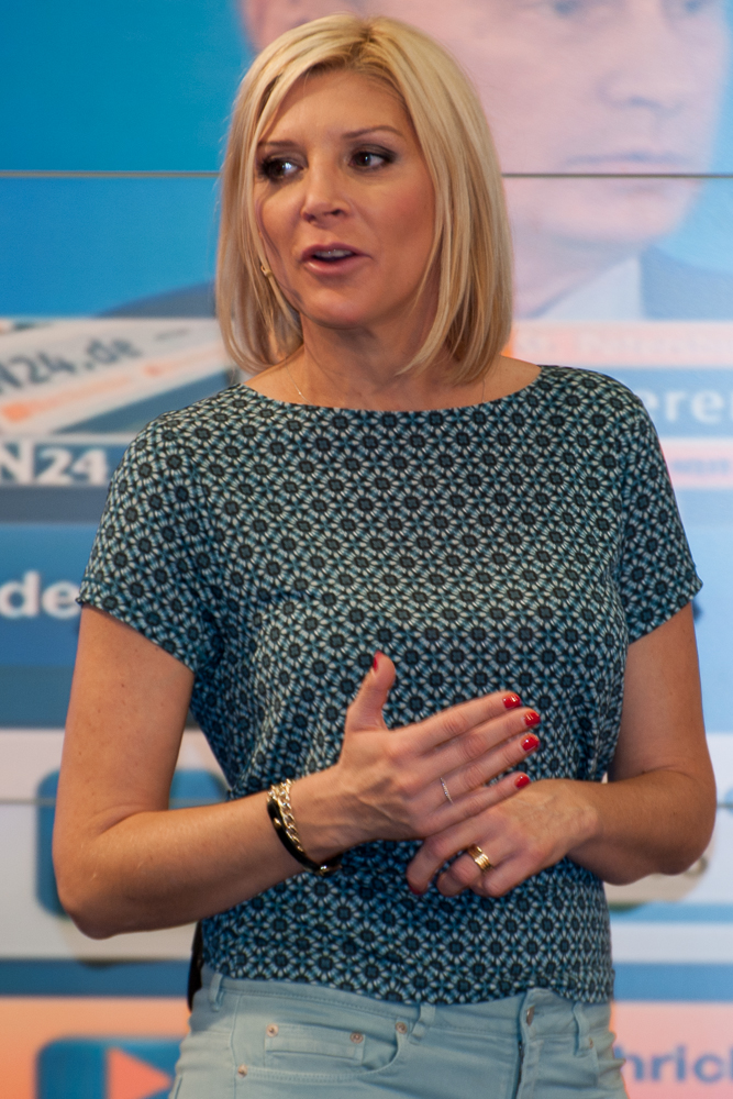 Miriam Pede, German TV Presenter at IFA 2013, Hall 09